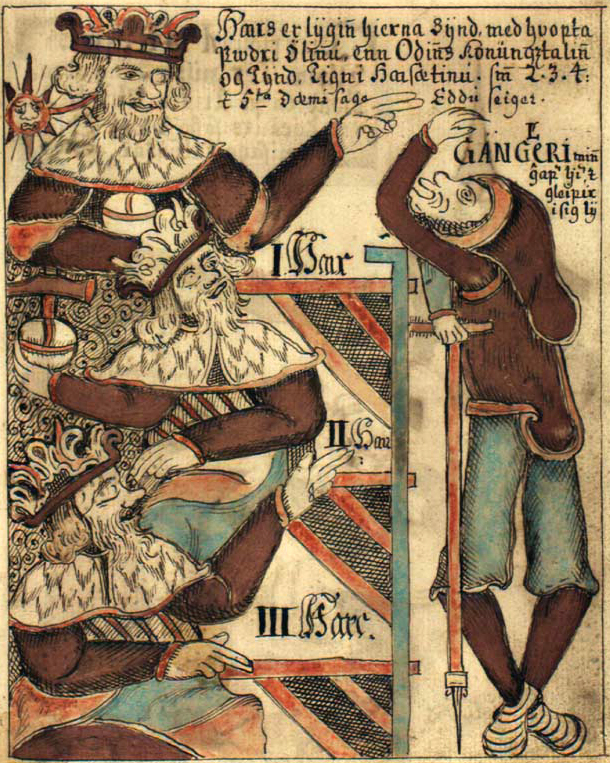 An illustration of High, Just-As-High, and Third with Gangleri, king Gylfi in diguise; from an Icelandic 18th century manuscript.